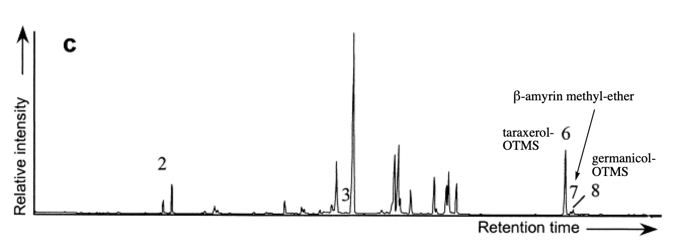 Taraxerol total ion current traces, modified from Versteegh et al. 2004